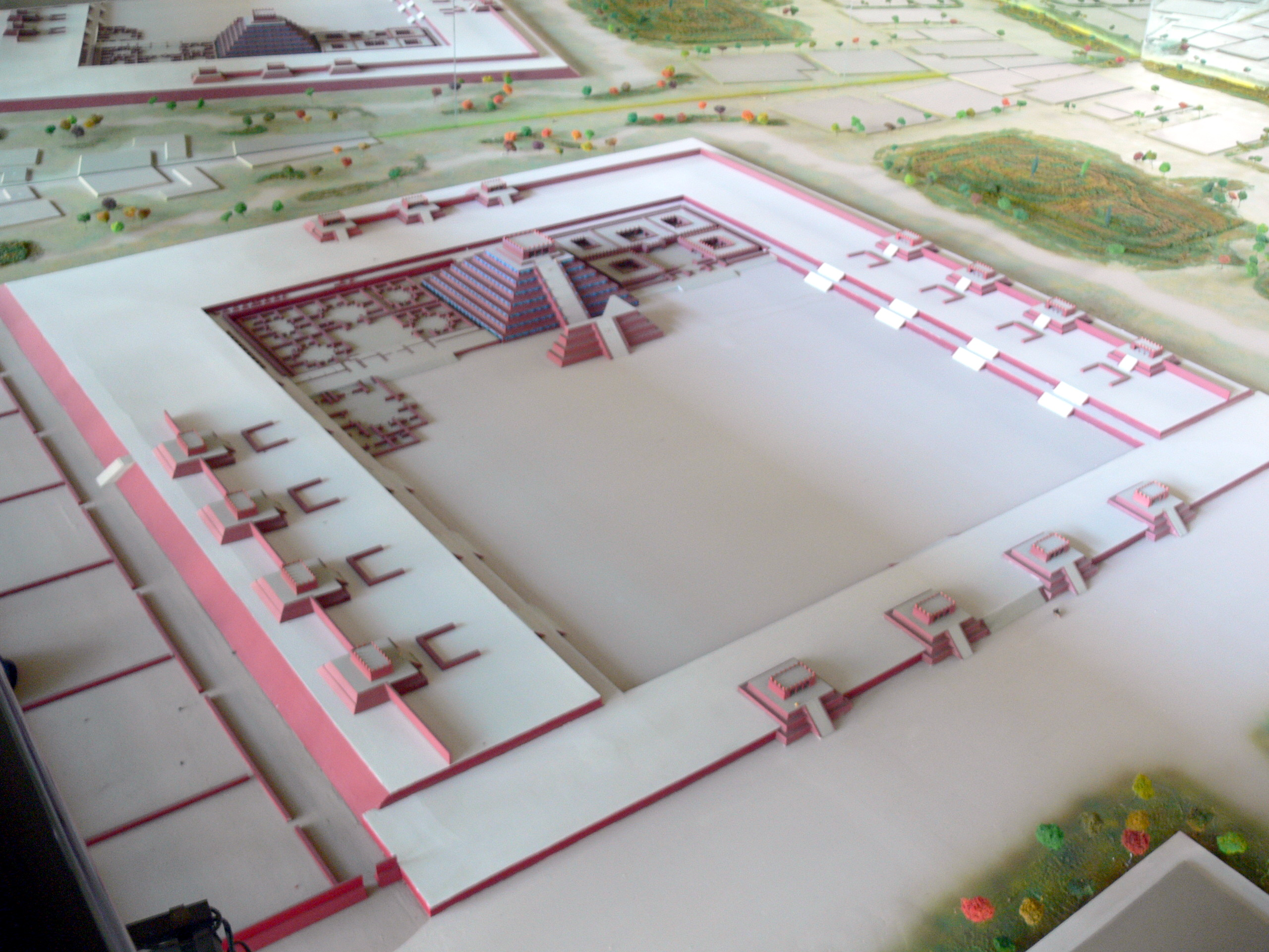 Museo del sitio, Teotihuacán. Reconstruction of La Ciudadela